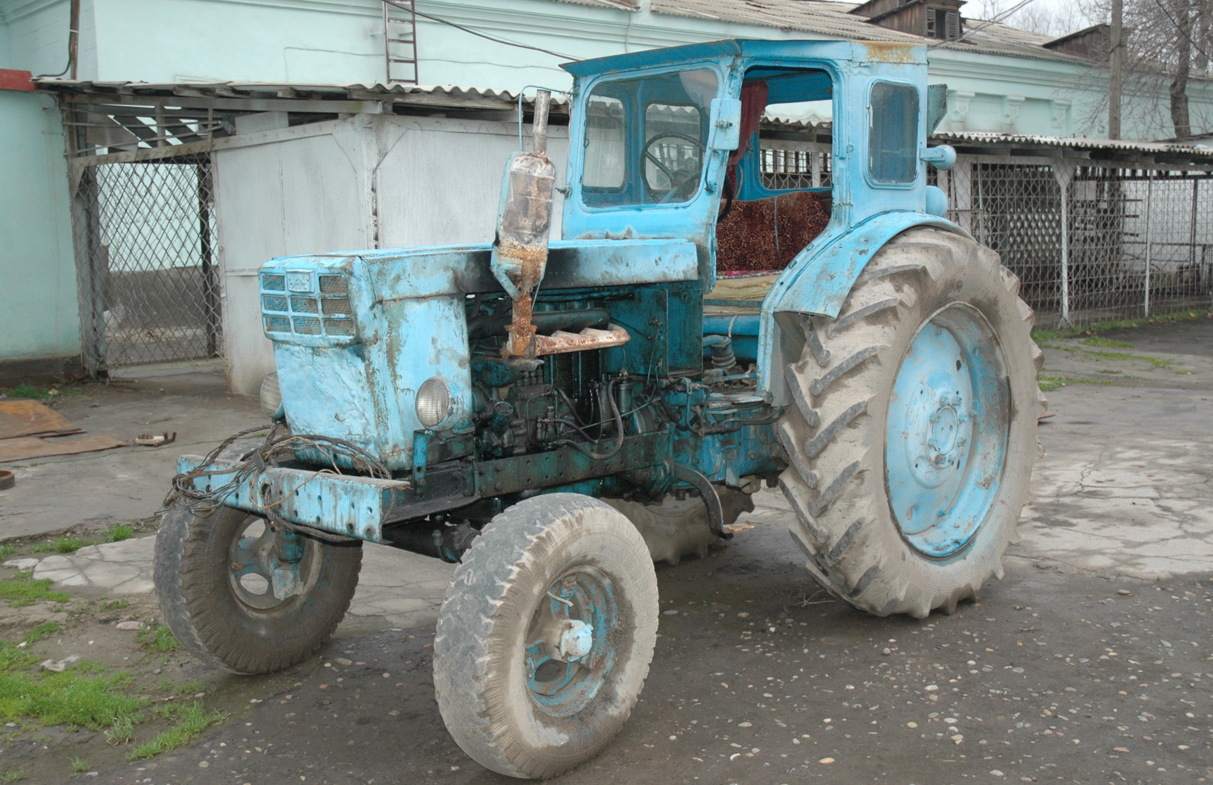 T-40 tractor (Qurghonteppa, Tajikistan)